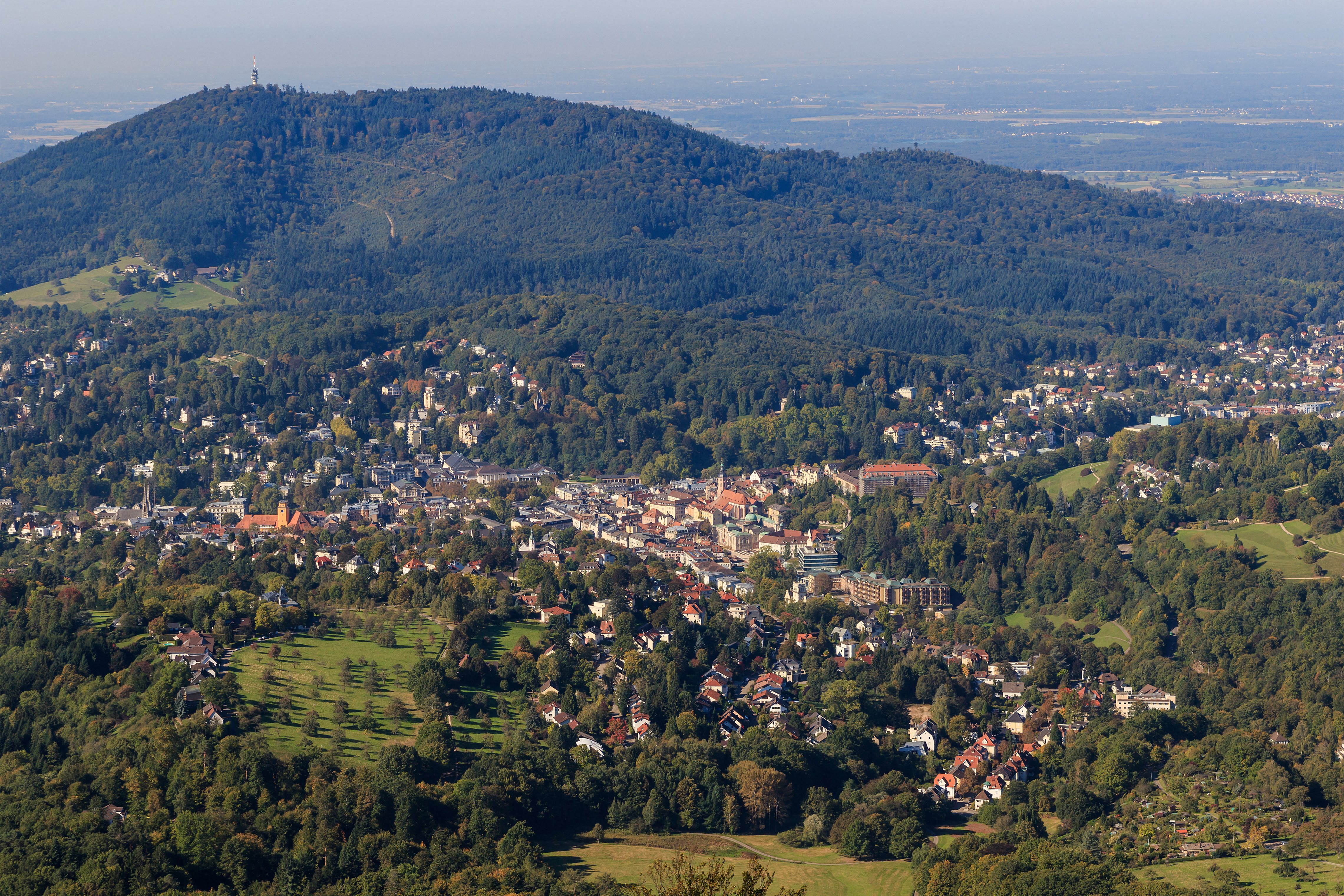 View from Merkur in Baden-Baden (BW, Germany). This photo shows the view towards the centrum of Baden-Baden.